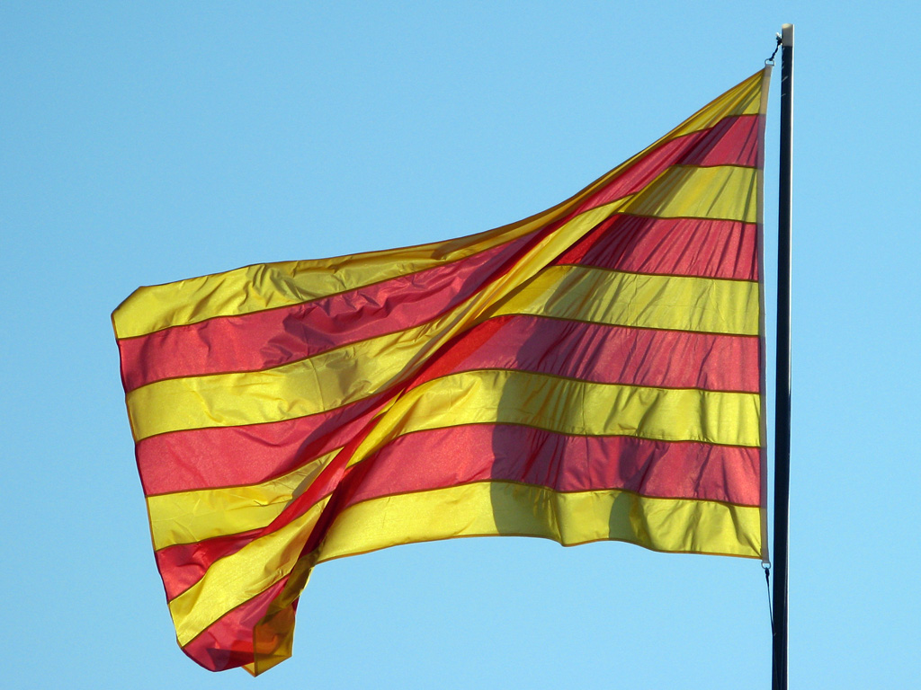 Flag of Catalonia (and of the ancient Crown of Aragon) at the Plaça Octavià (square) in Sant Cugat del Vallès (Province of Barcelona, Catalonia, Spain).